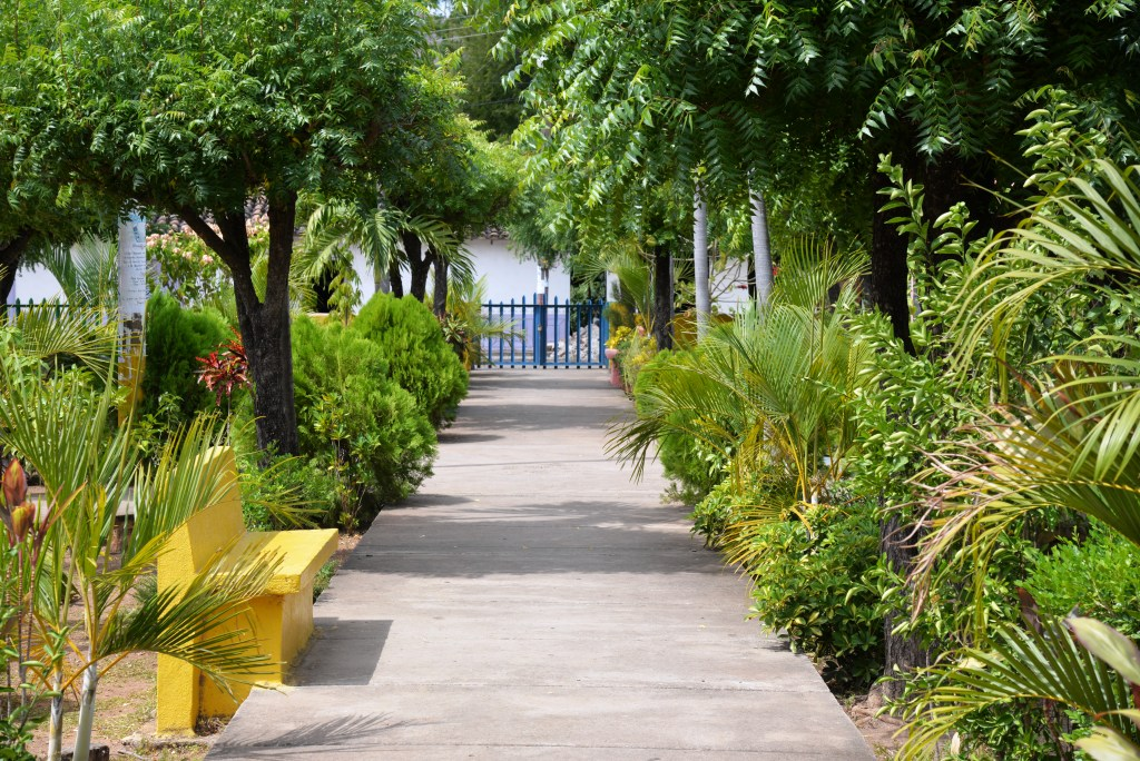 Parque Central de Santa Rosa del Peñón, Nicaragua.